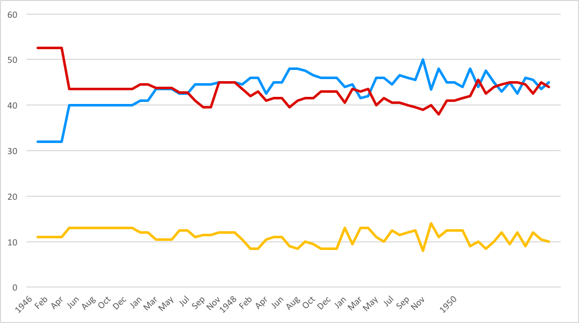 Graphical summary of the 1950 UK election polling